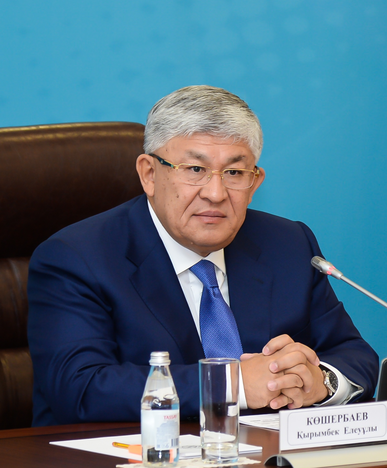 Kazakh politician.